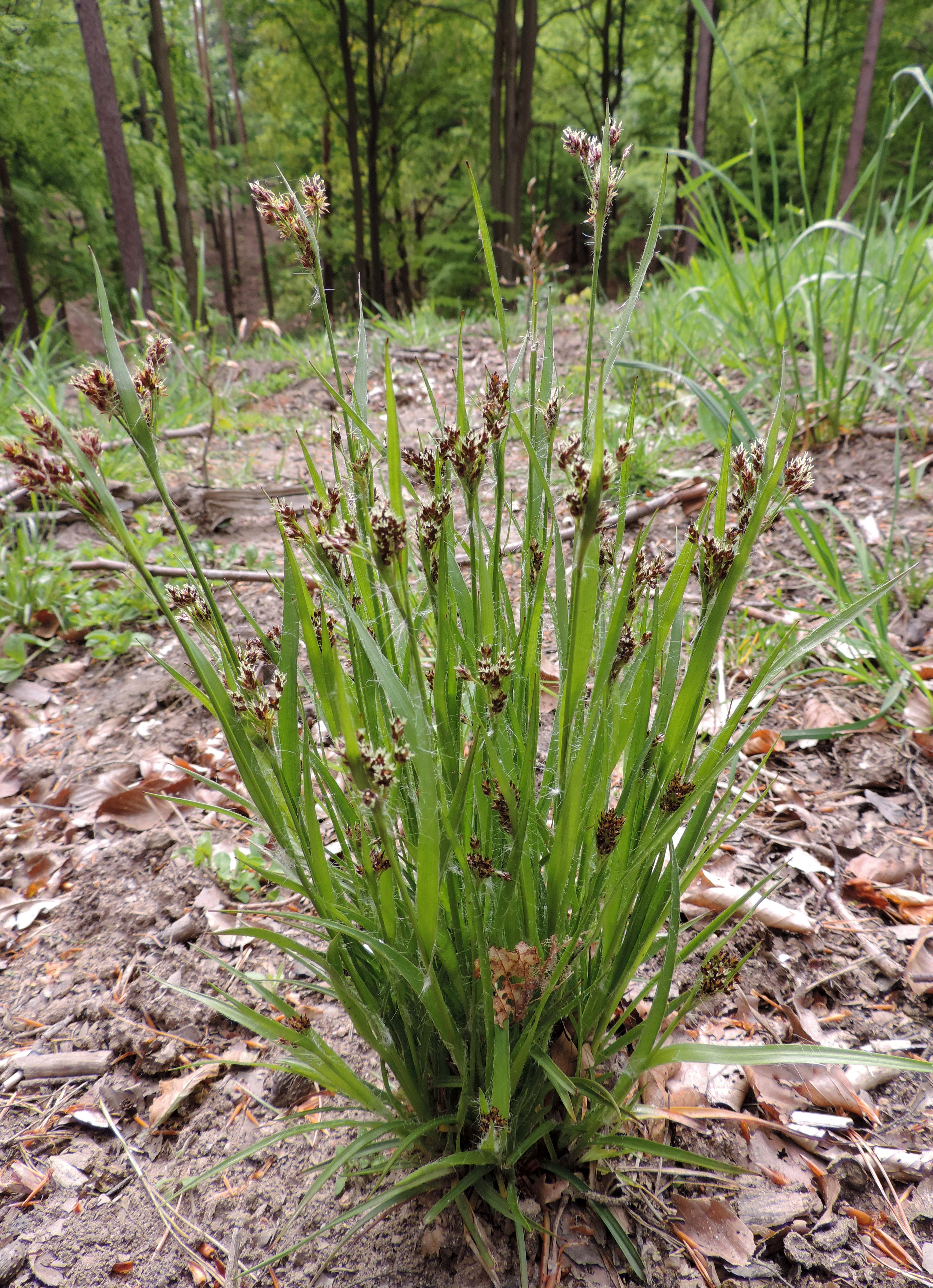 Luzula multiflora in forest near Gniewino, N Poland